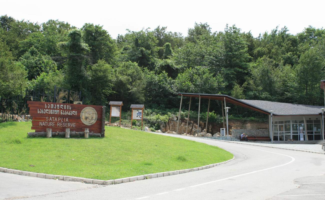 Sataplia Nature Reserve. Entrance